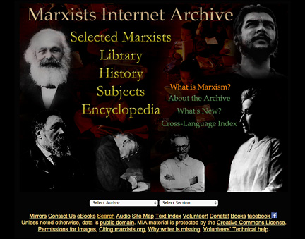 Screenshot of the front page of on 2017